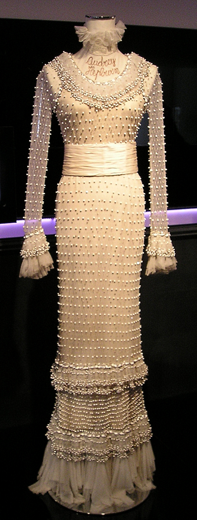 Dress made by Valentino, worn by Audrey Hepburn. Photographed at the exhibition "Valentino a Roma" at Museo Ara Pacis in Rome